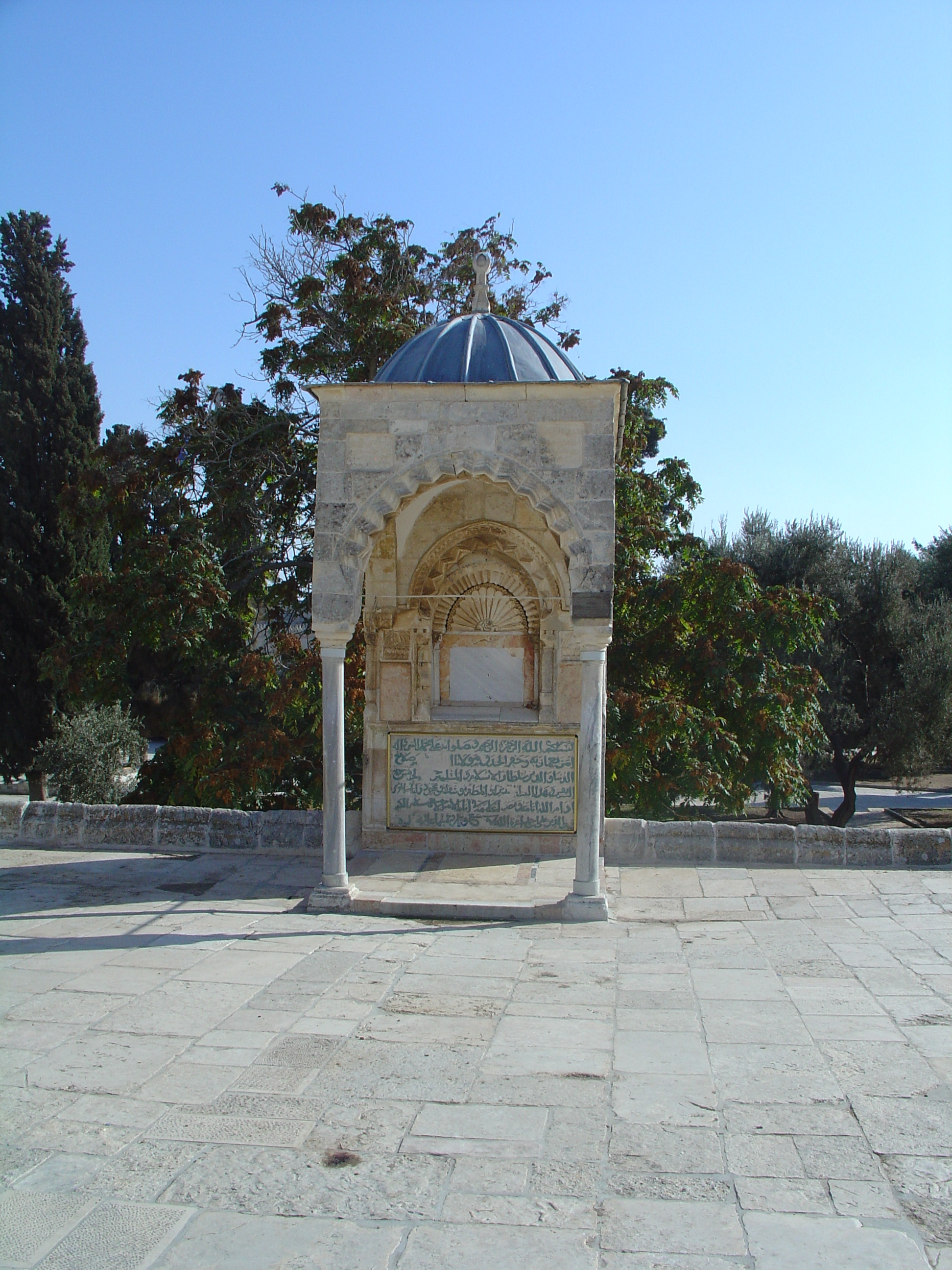 Al-Aqsa Mosque